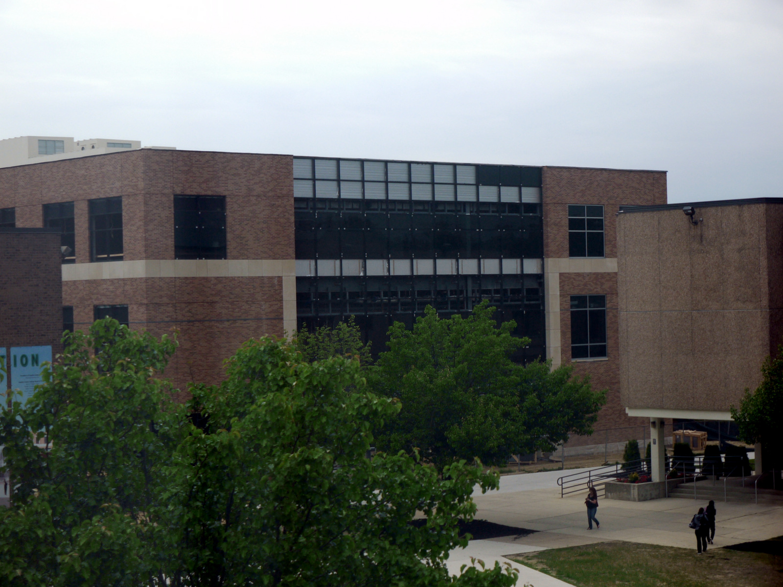 photograph of the new science building being built at Camden County College in May 2012